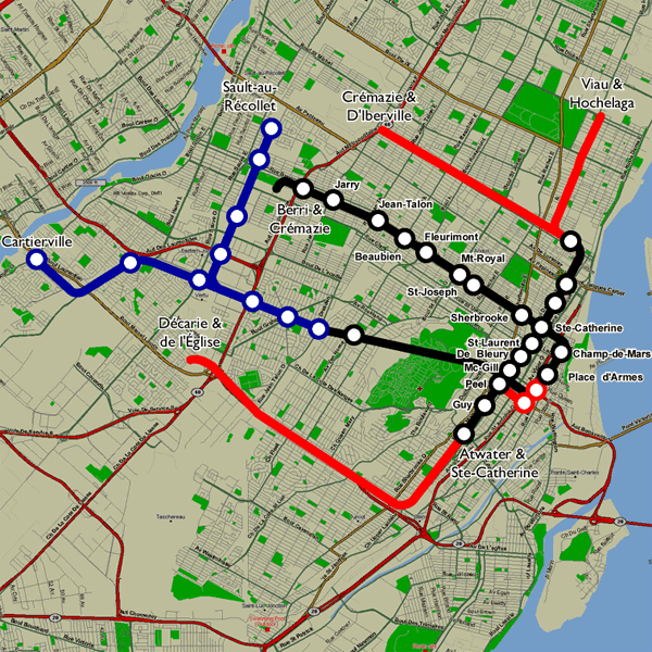 1961 Montreal subway project map